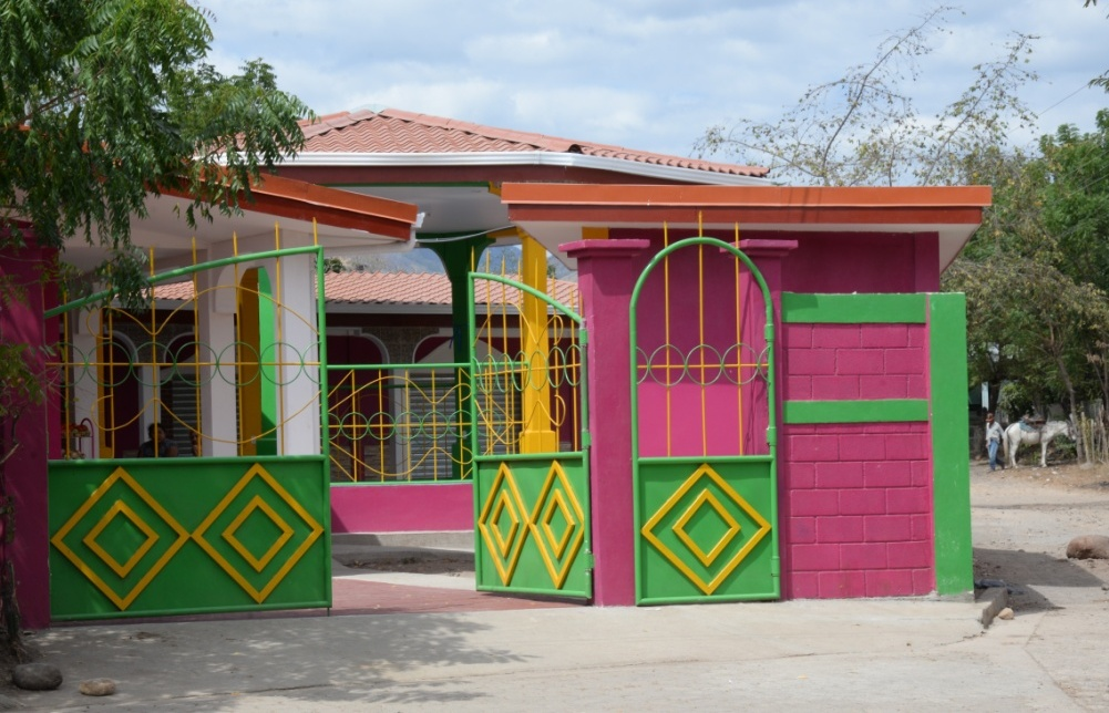 Casa en Santa Rosa del Peñón, Nicaragua.